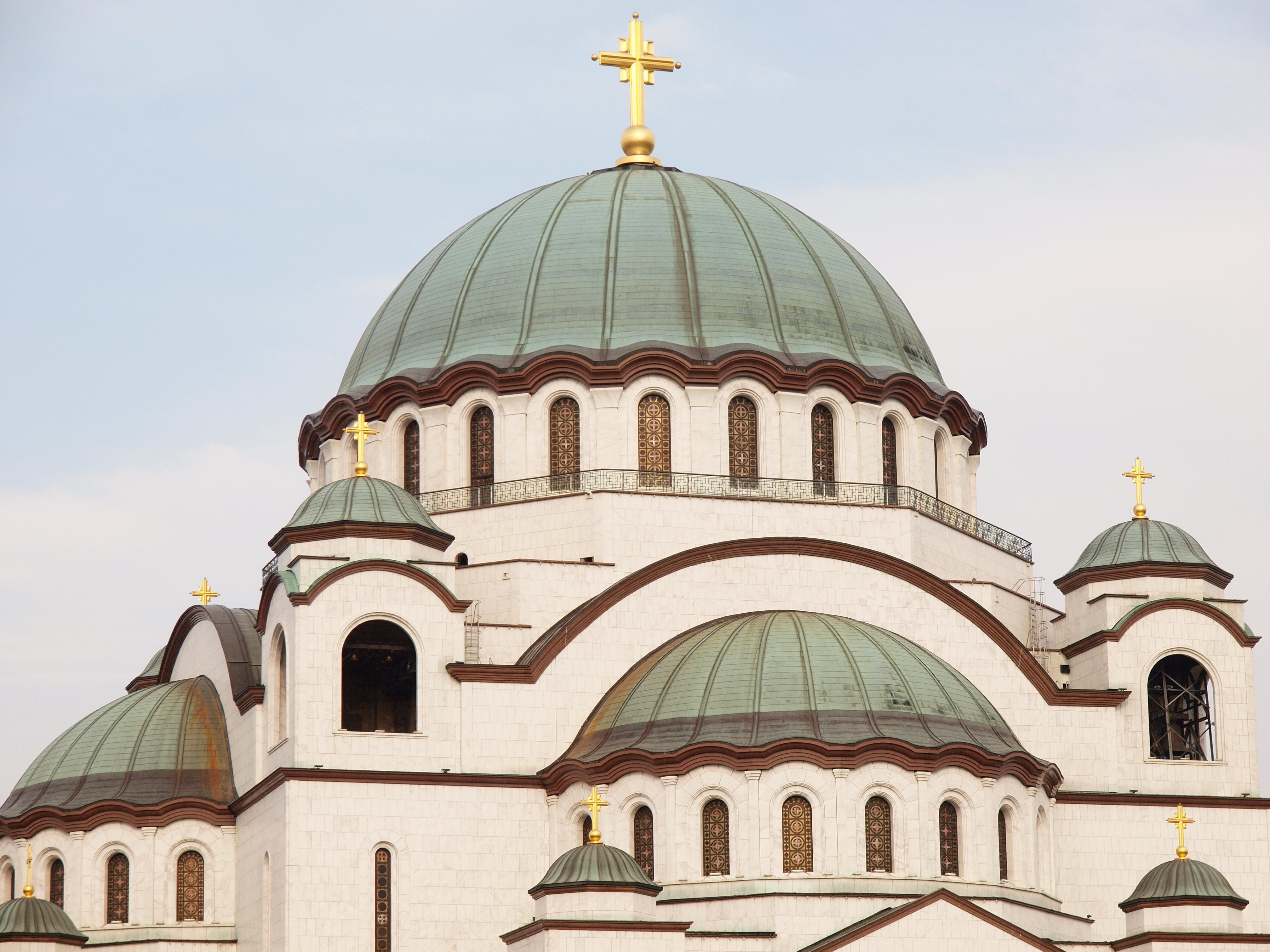 Dome of Sv. Sava with 30,5 m inner and 35,15 m outer diameter